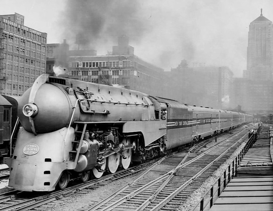 Photo of the streamlined New York Central train the 20th Century Limited leaving Chicago's LaSalle Street station on a trial run June 9, 1938. The train was put into service on June 15, 1938.